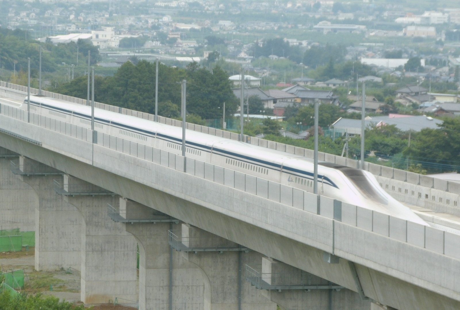 A 7-car L0 series maglev shinkansen formation undergoing test-running on the Yamanashi Test Track